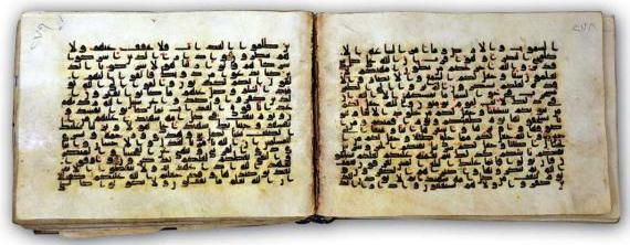 A manuscript of the Mushaf of Ali, a Qur'an believed to be written by Ali ibn Abi Talib. These pages are surah "al-Nahl", verses 77–92. Written in Kufic style.